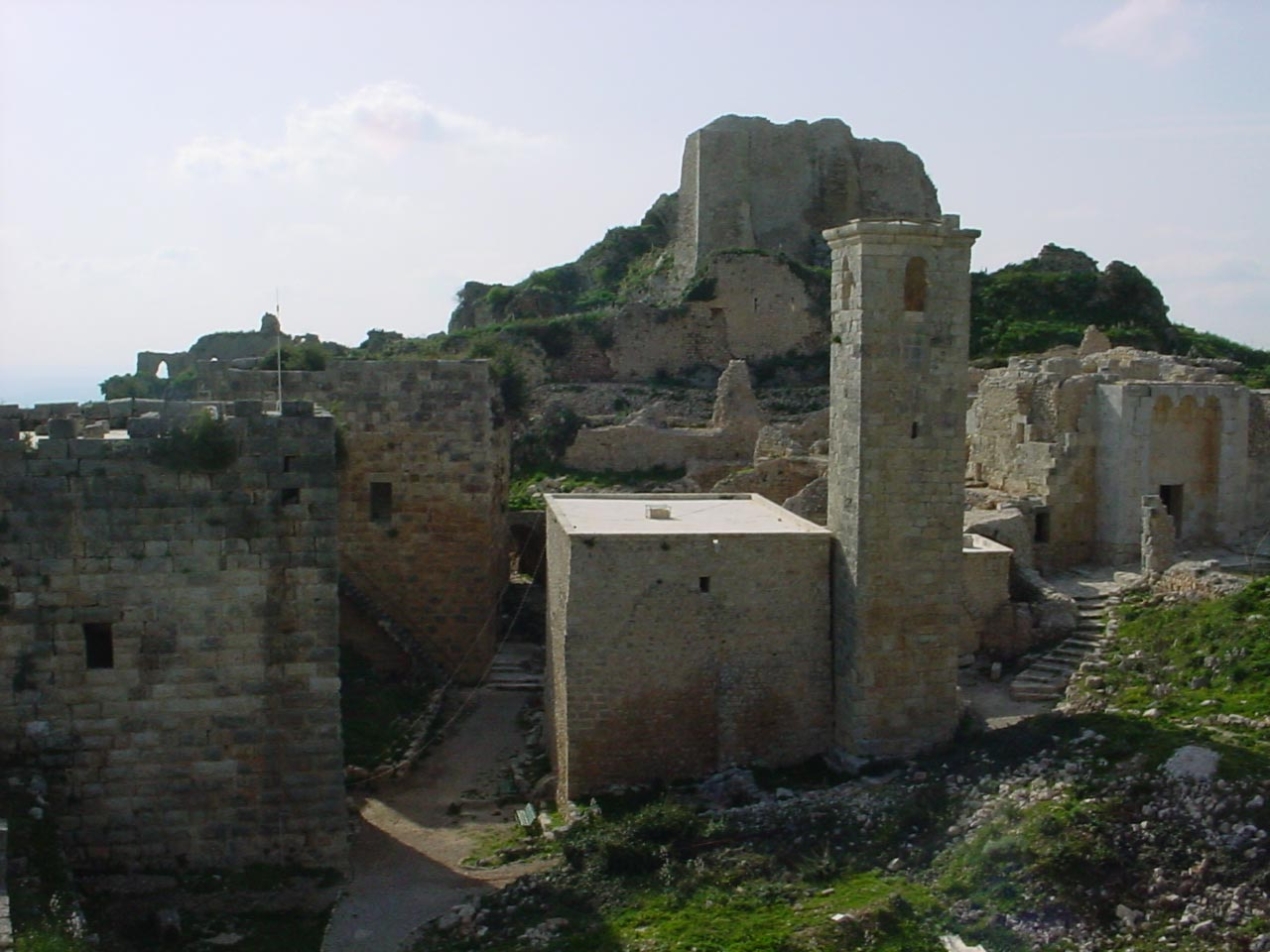 Salah al-din citadel in Syria